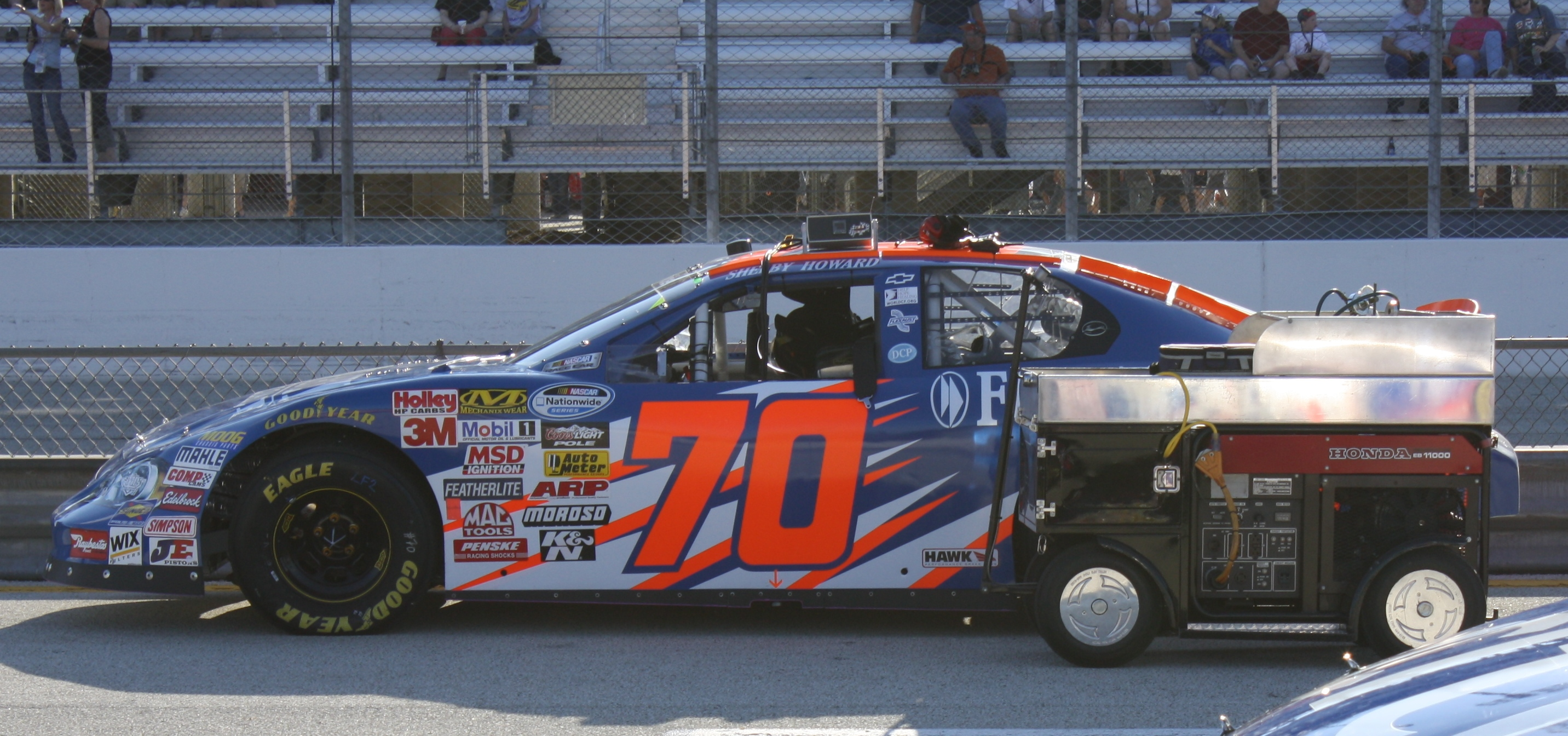 NASCAR driver Shelby Howards Chevrolet at the 2009 Northern 250 Nationwide Series race at the Milwaukee Mile.